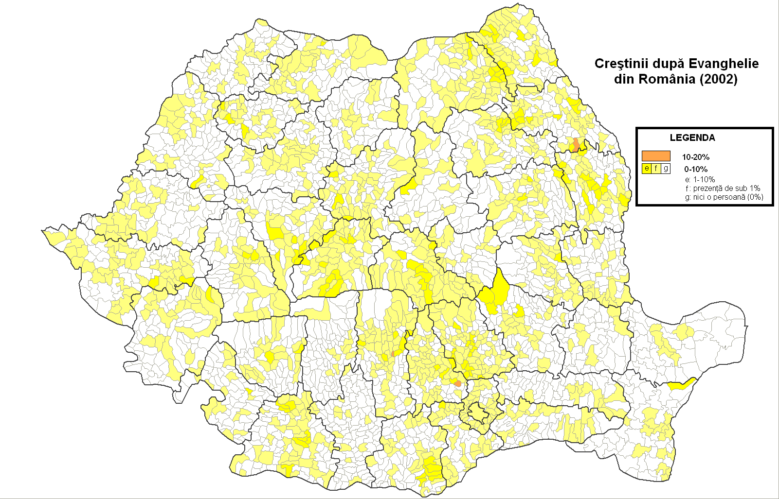 The distribution of the adherents to the United Brethren Church in Romania (census 2002)